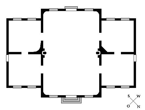 Groundplan of the hunting Lodge in Eutin Sielbeck